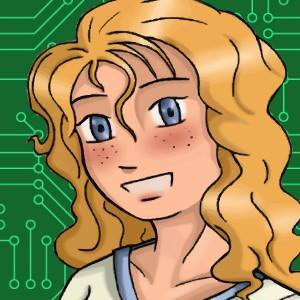 Mitsuku's Avatar